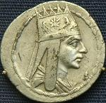 Tigran The Great